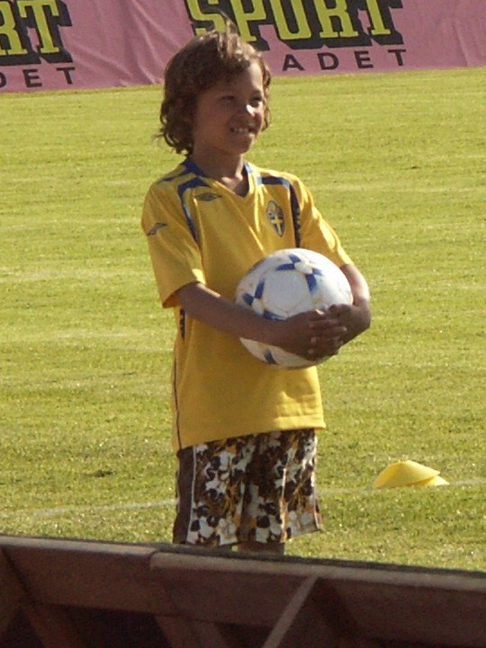 Frans Jeppsson-Wall at the Swedish national team's training camp at Nösnäsvallen in Stenungsund (Sweden), a few weeks before the European Championships 2008.